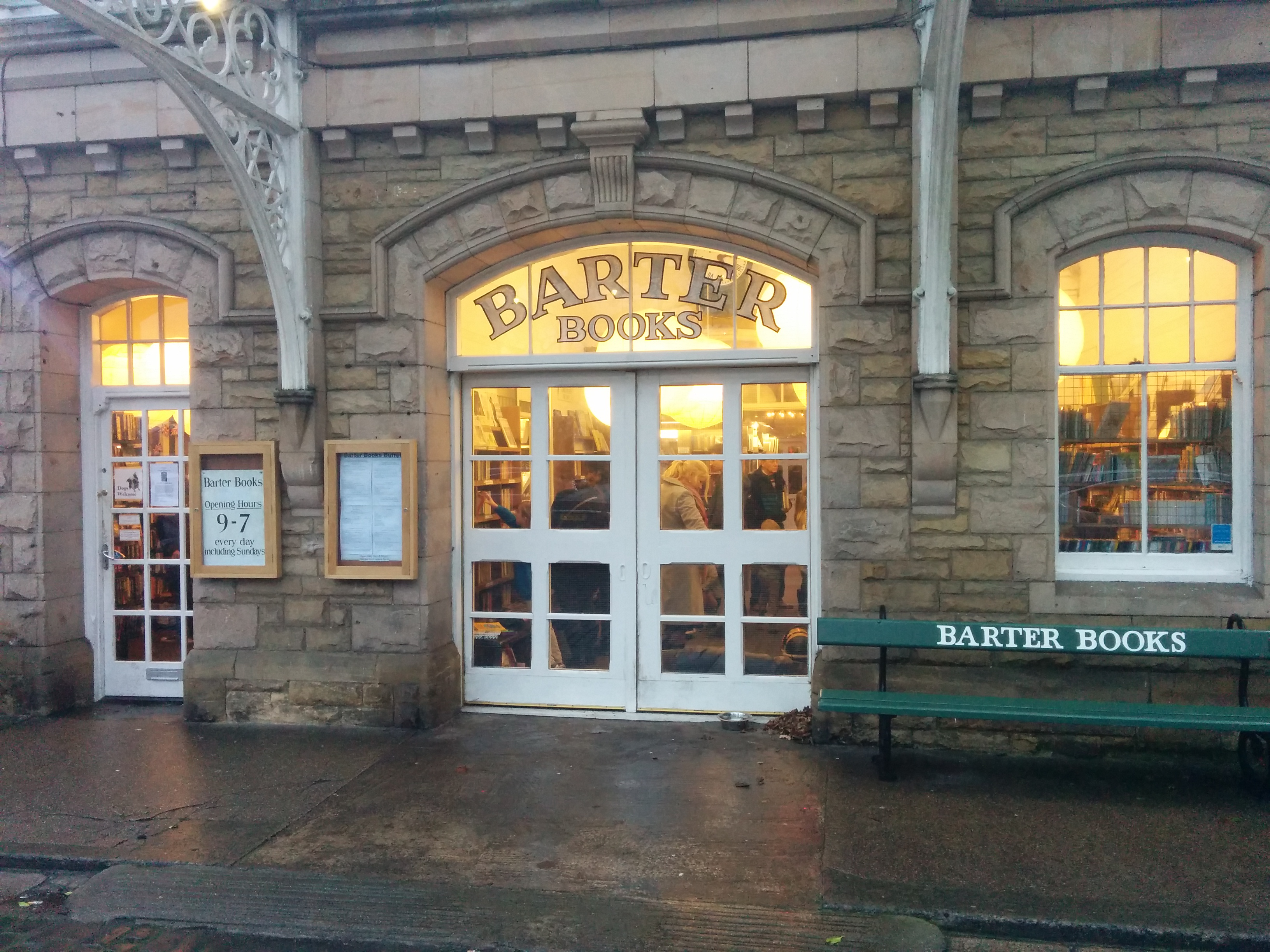 Barter Nooks in Alnwick 2 January 2016